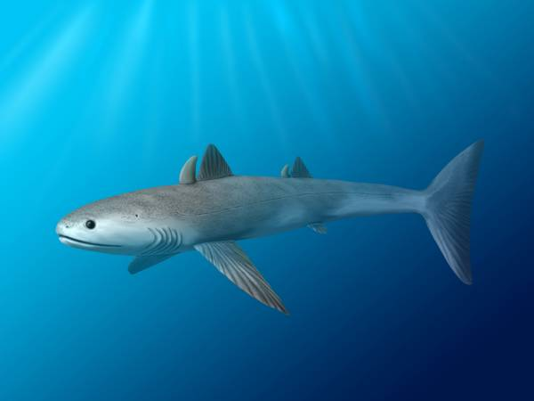 Life reconstruction of Cladoselache fyleri